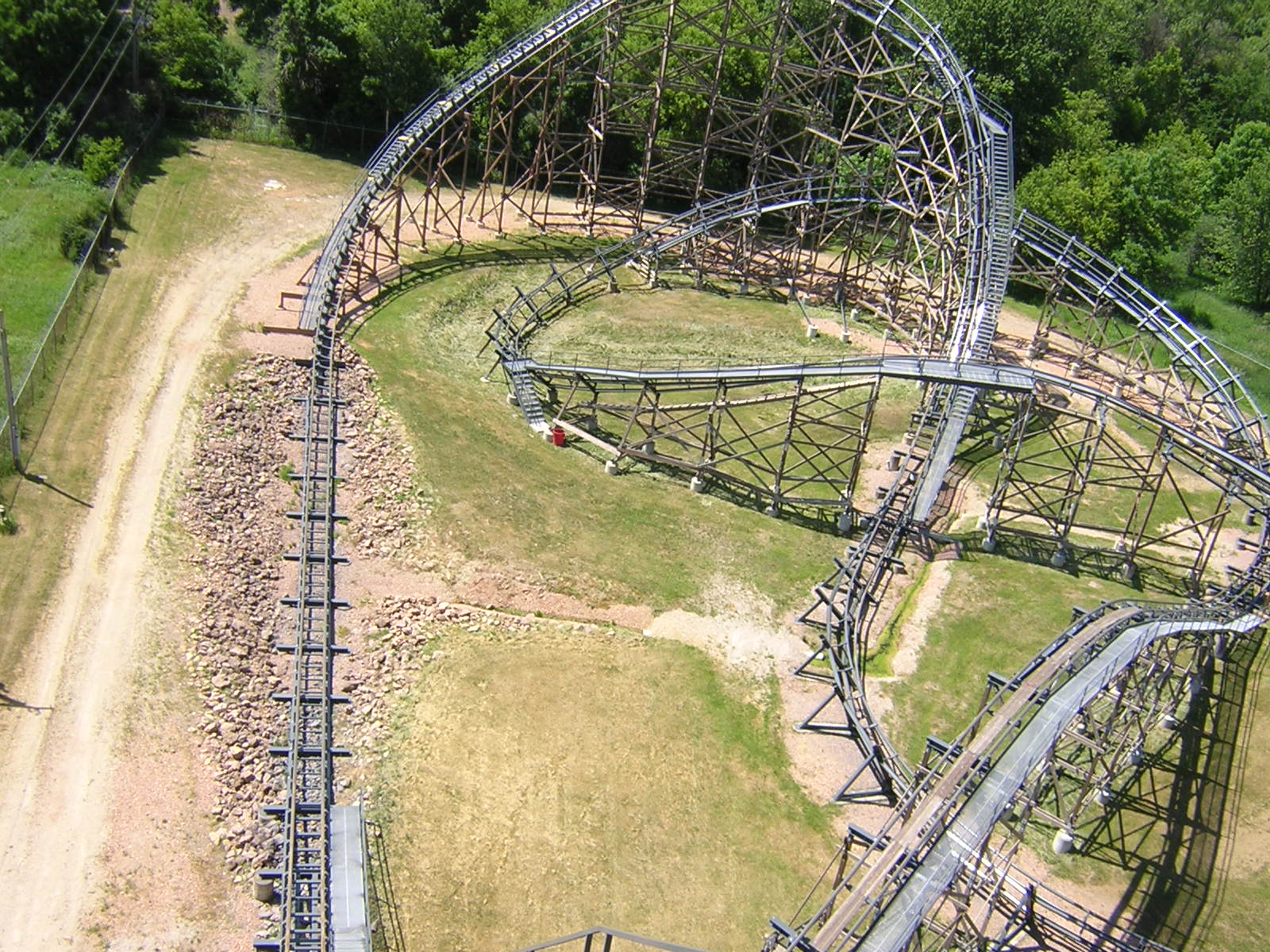 Backside of Excalibur roller coaster ride at Cedar Fair's Valleyfair! amusement park in Shakopee, Minnesota, USA